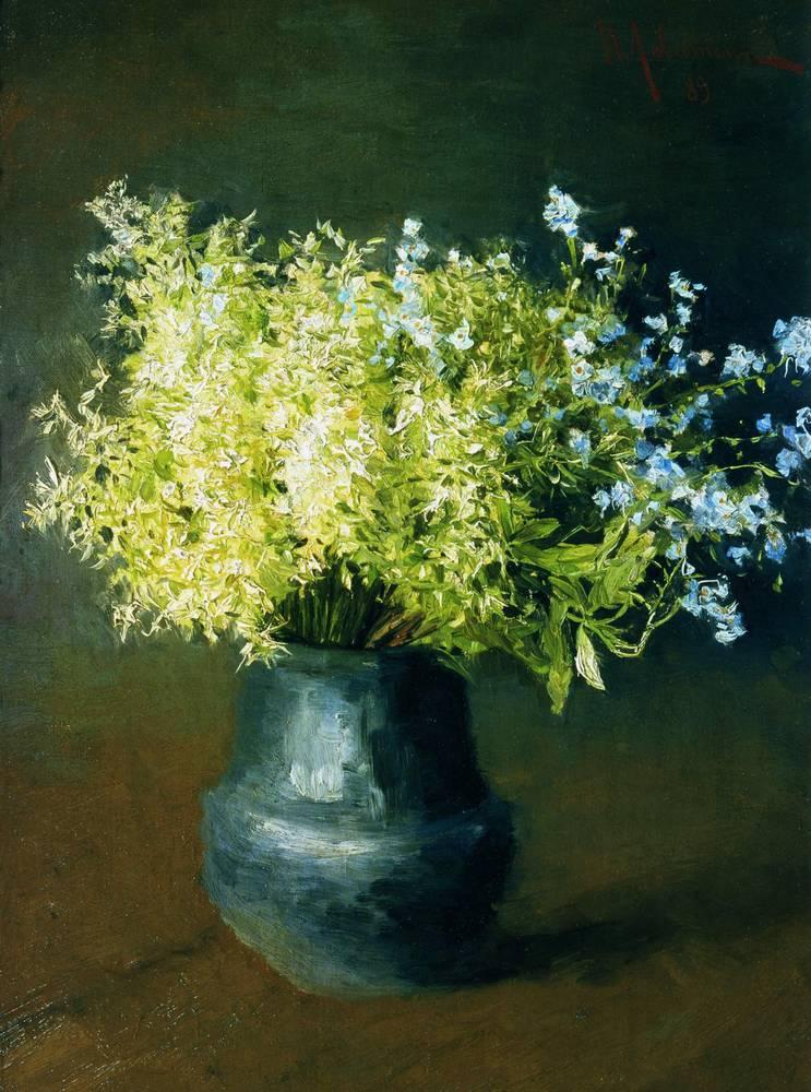 "Wild violets and Forget-me-not", painting by Isaac Levitan